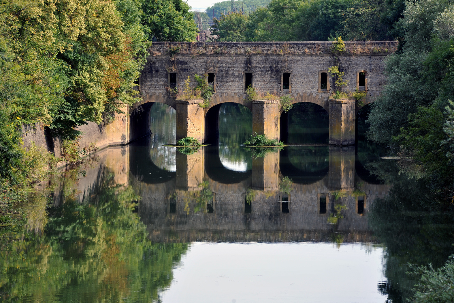 Pont du Couronné, Pont-écluse Nord, one of the two historical Ponts sur le canal des fortifications in Thionville; Moselle, France.